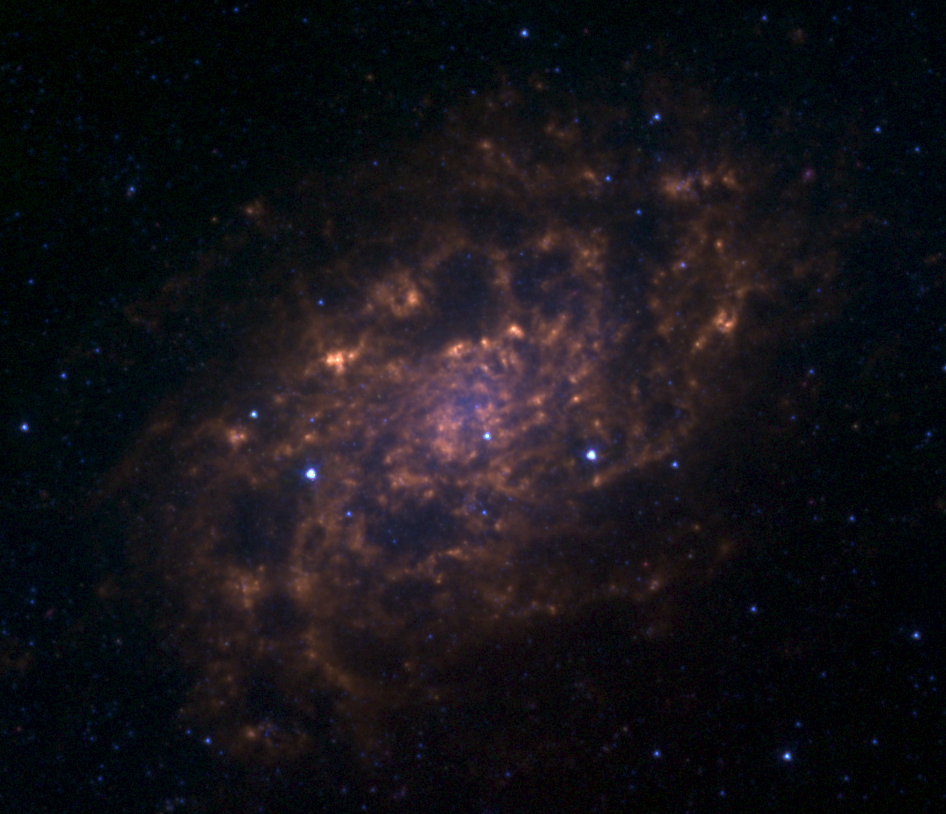 Image of the NGC 2403 galaxy in Infrared at 3.6 (blue), 5.8 (green) and 8.0 (red) µm. The image has been made by myself (Médéric Boquien) from the data retrieved on the SINGS project public archives of the Spitzer Space Telescope (courtesy NASA/JPL-Caltech)